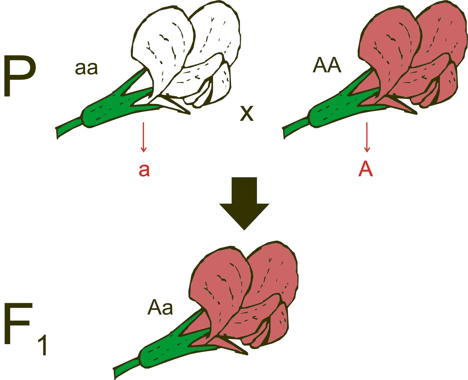 Medel's law of uniformity